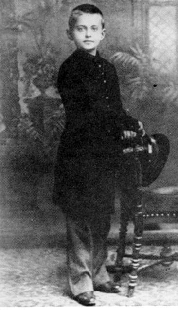 Portait of Leon Trotsky (1879-1940)